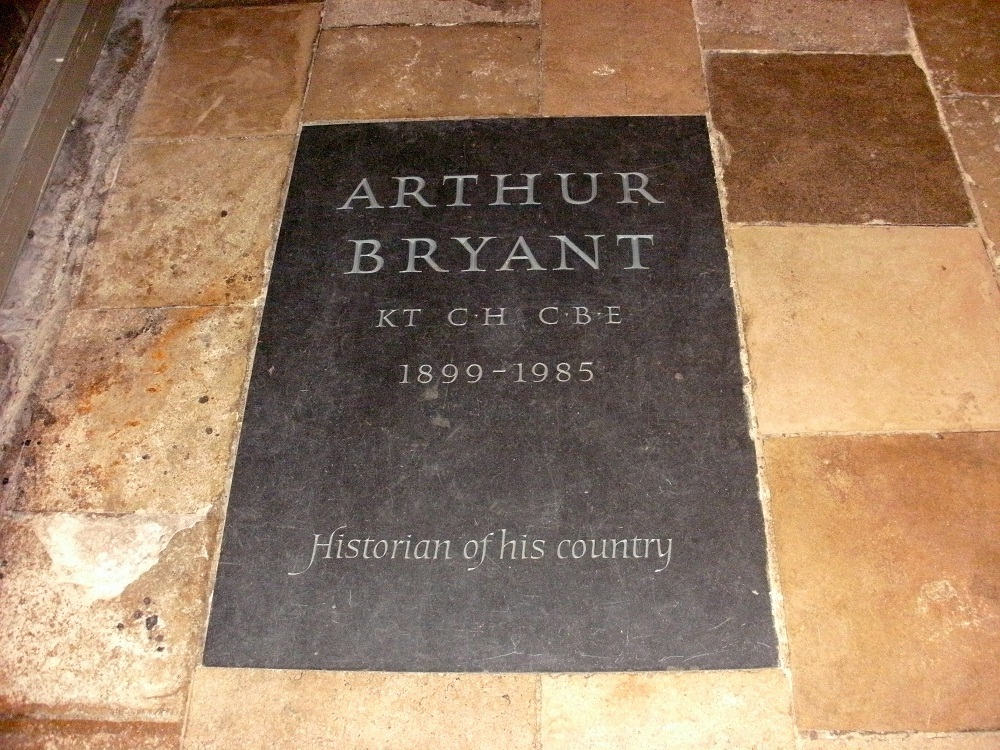 Grave of historian Sir Arthur Bryant, CH, CBE, in Salisbury Cathedral, Wiltshire, England.